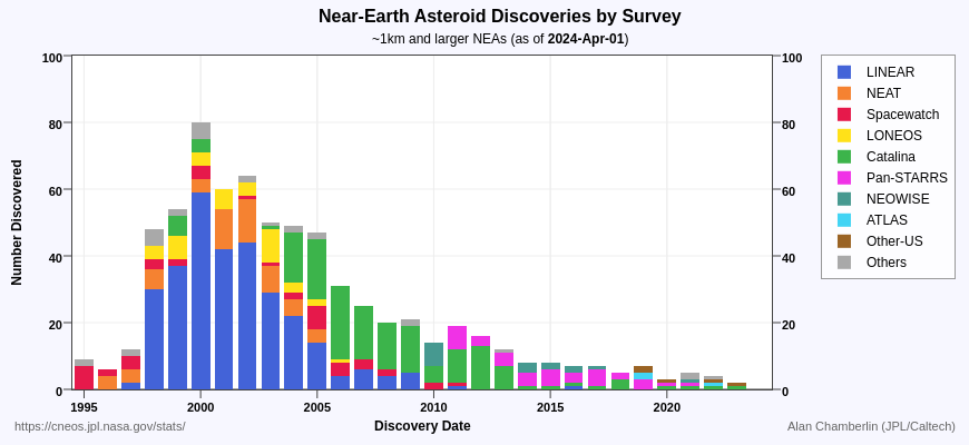 Showing near earth asteroids over 1 km in diameter